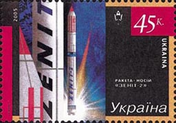 Stamp of Ukraine